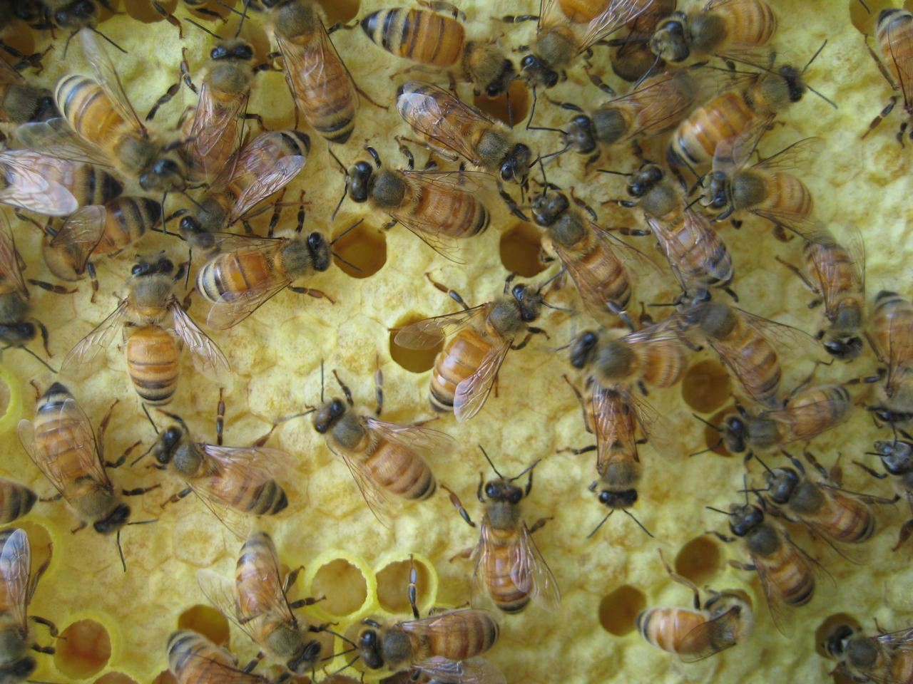 Honey bee workers on comb of brood